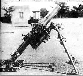 A Type 96 150 mm mortar of the Imperial Japanese Army